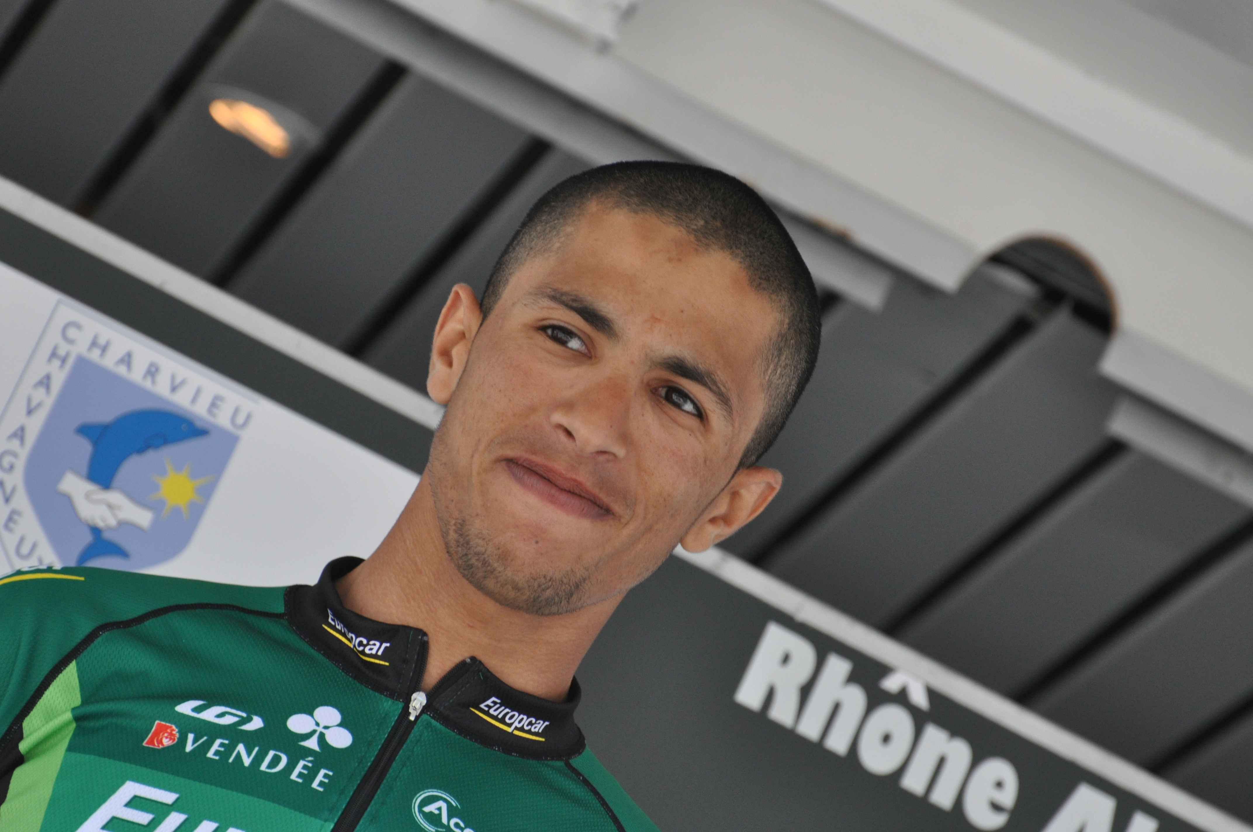 Rafaâ Chtioui Rafaâ Chtioui, a Tunisian professional cyclist